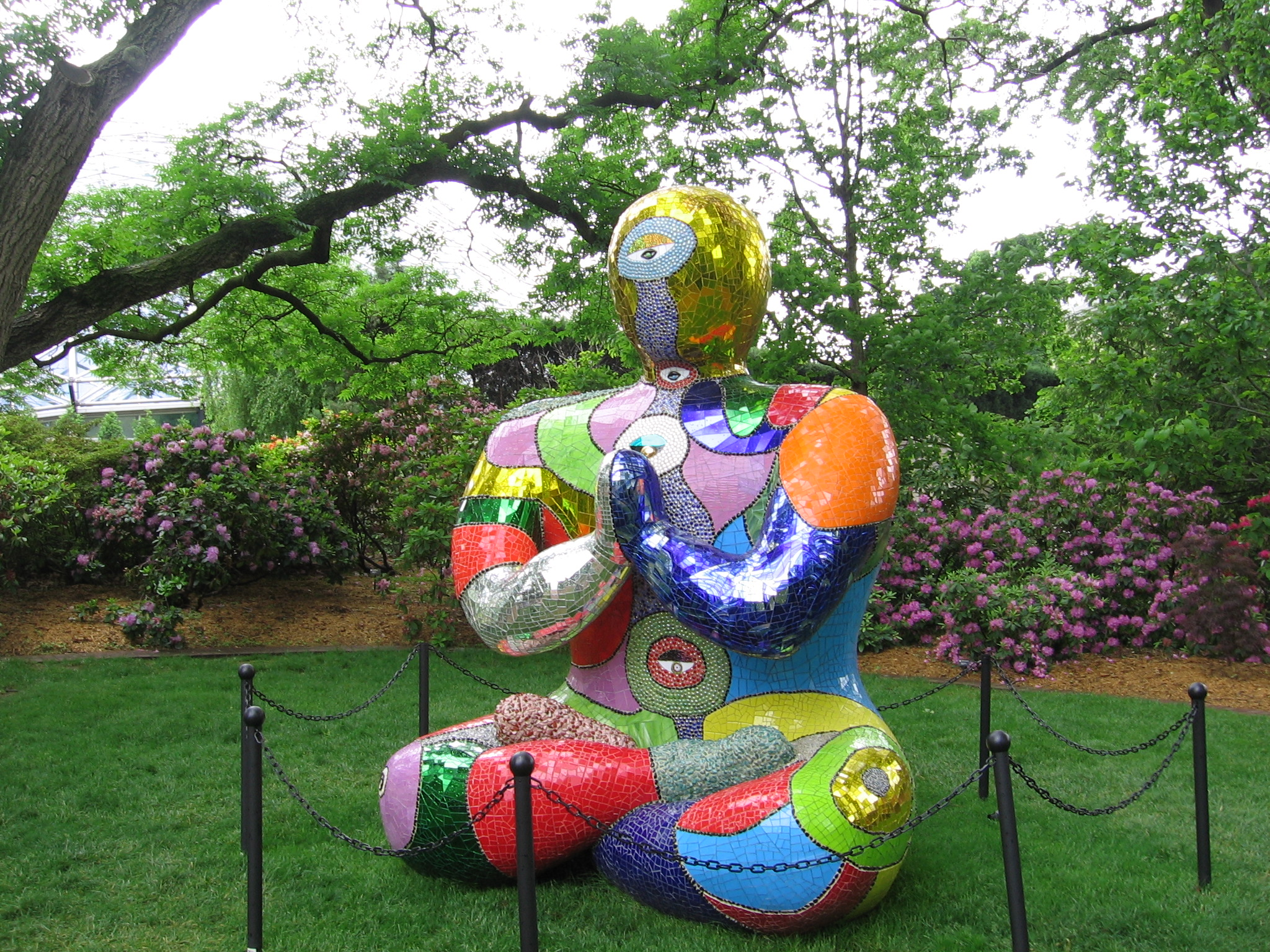 Sculpture Budha by Niki de Saint Phalle in Israel